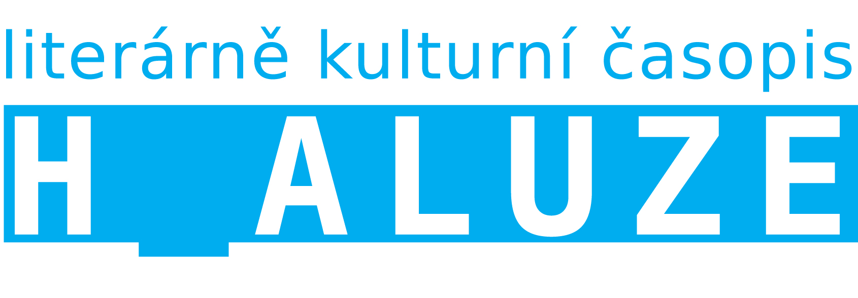 The logo of a Czech literary magazine H_aluze